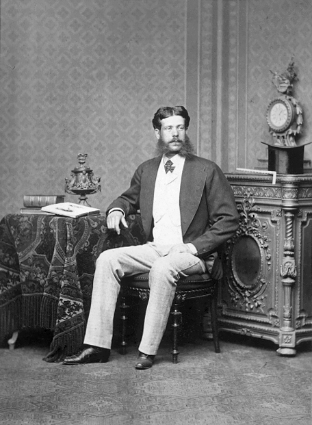 The Austrian banker Albert von Rothschild (1844–1911)